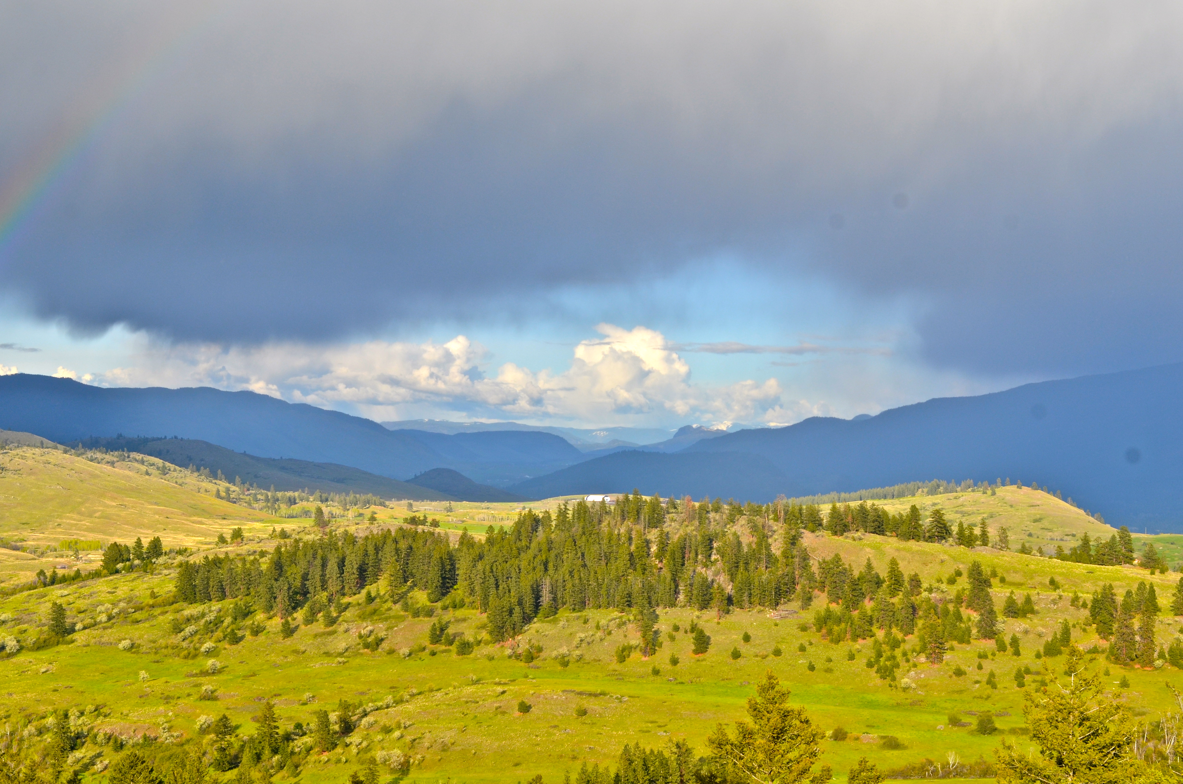 East toward Limby